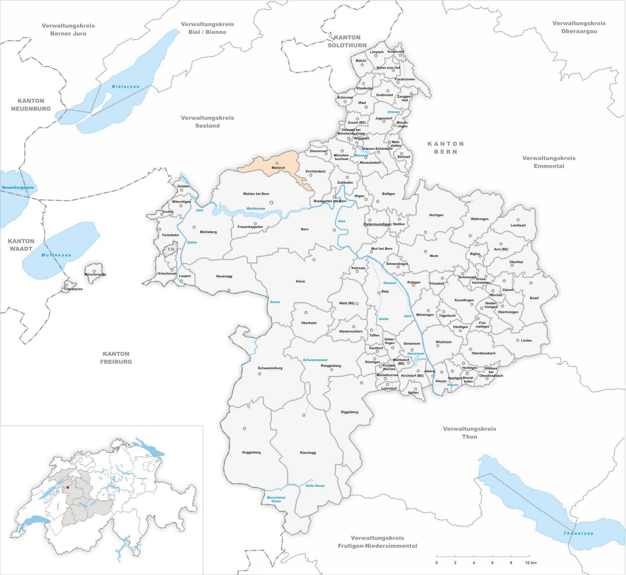 Municipality Meikirch